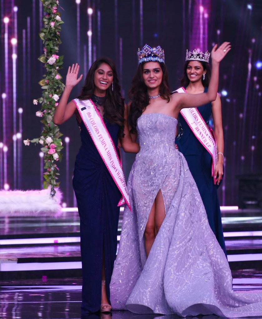 The newly elected Femina Miss India World 2018, Anukreethy Vas with the outgoing Miss India, Manushi Chhillar.